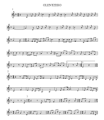 Olentzero